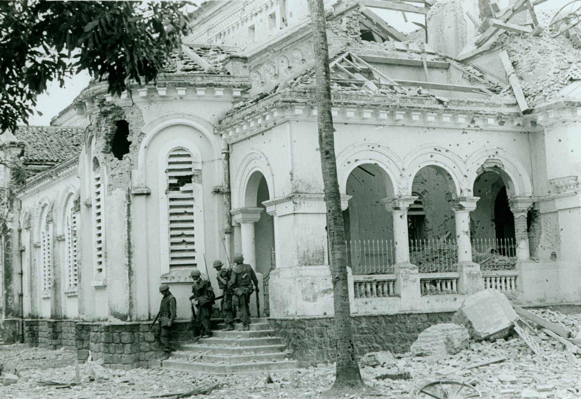 "After the Battle: A Company, 1st Battalion, 1st Marines [A/1/1] leave church after successfully capturing it from North Vietnamese control during one of the bloody battles taking place in Hue (official USMC photo by Sergeant Bruce A. Atwell)." From the Jonathan Abel Collection (COLL/3611), Marine Corps Archives & Special Collections. OFFICIAL USMC PHOTOGRAPH